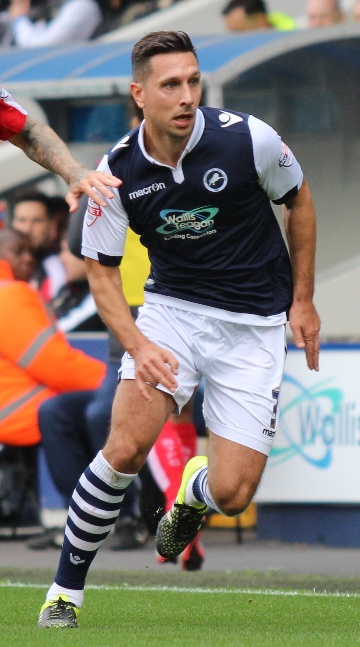 Joe Martin of Millwall and Ben Gladwin of Swindon Town chase down a loose ball.